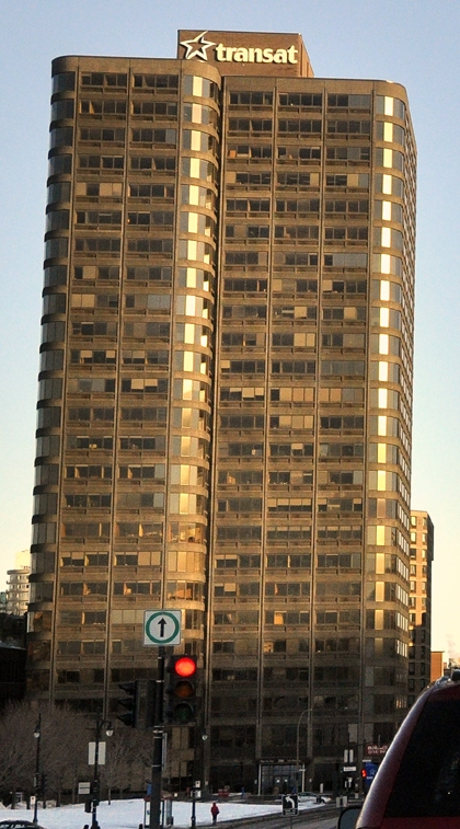 The Transat AT headquarters